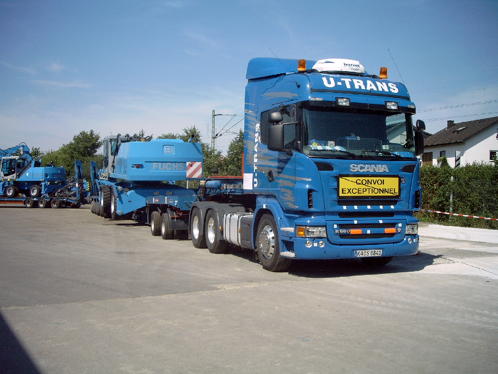 Scania R580 truck.